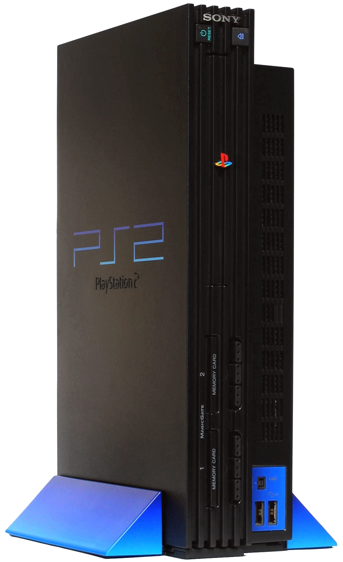 Sony PlayStation 2 games console (original form factor, SCPH-30000 model) with vertical stand.